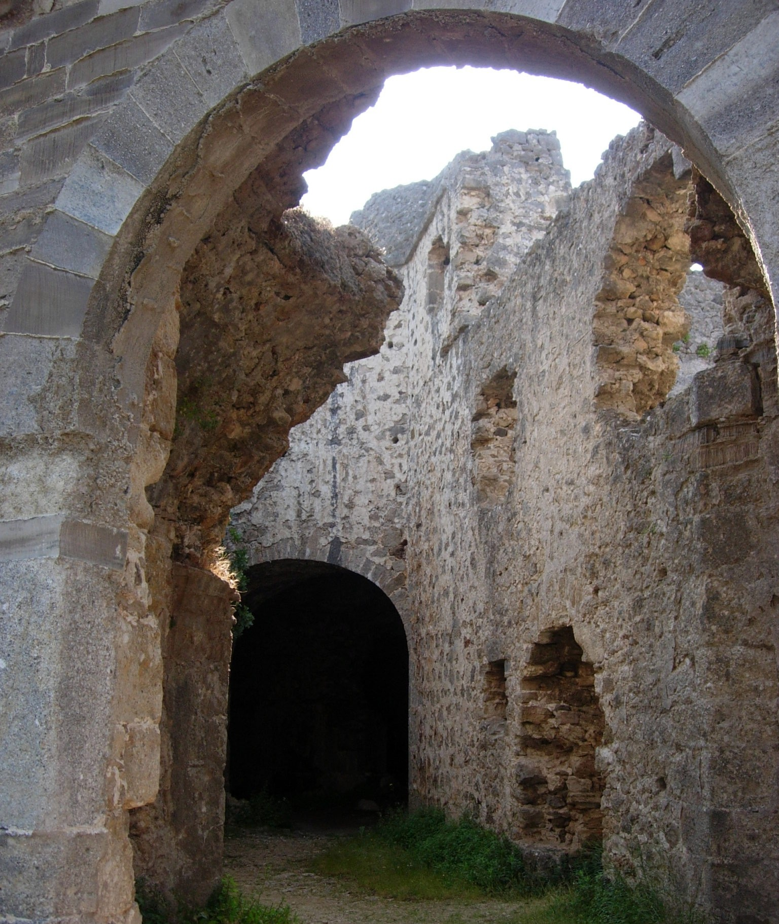 Inside the Castle of Ali Pasha. The castle near the village of Trikorfu